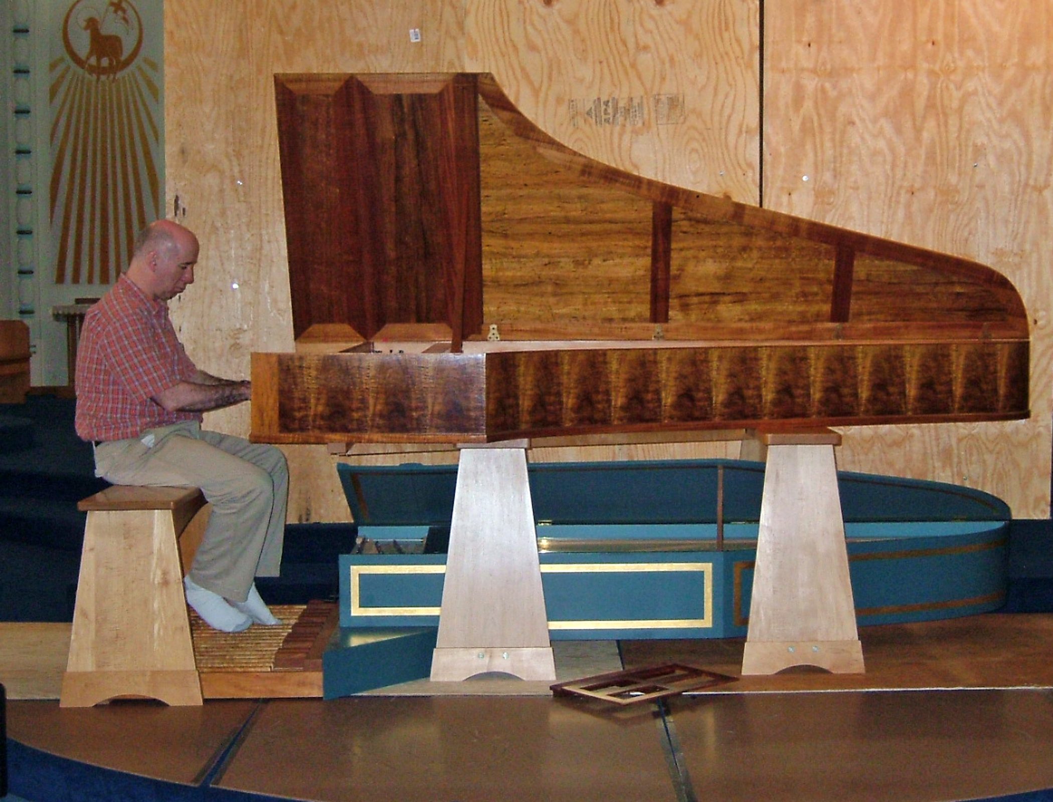 Peter Watchorn plays harpsichord by Alastair McAllister, Melbourne, 1999, and pedal harpsichord by Hubbard & Broekman, Boston, 1990